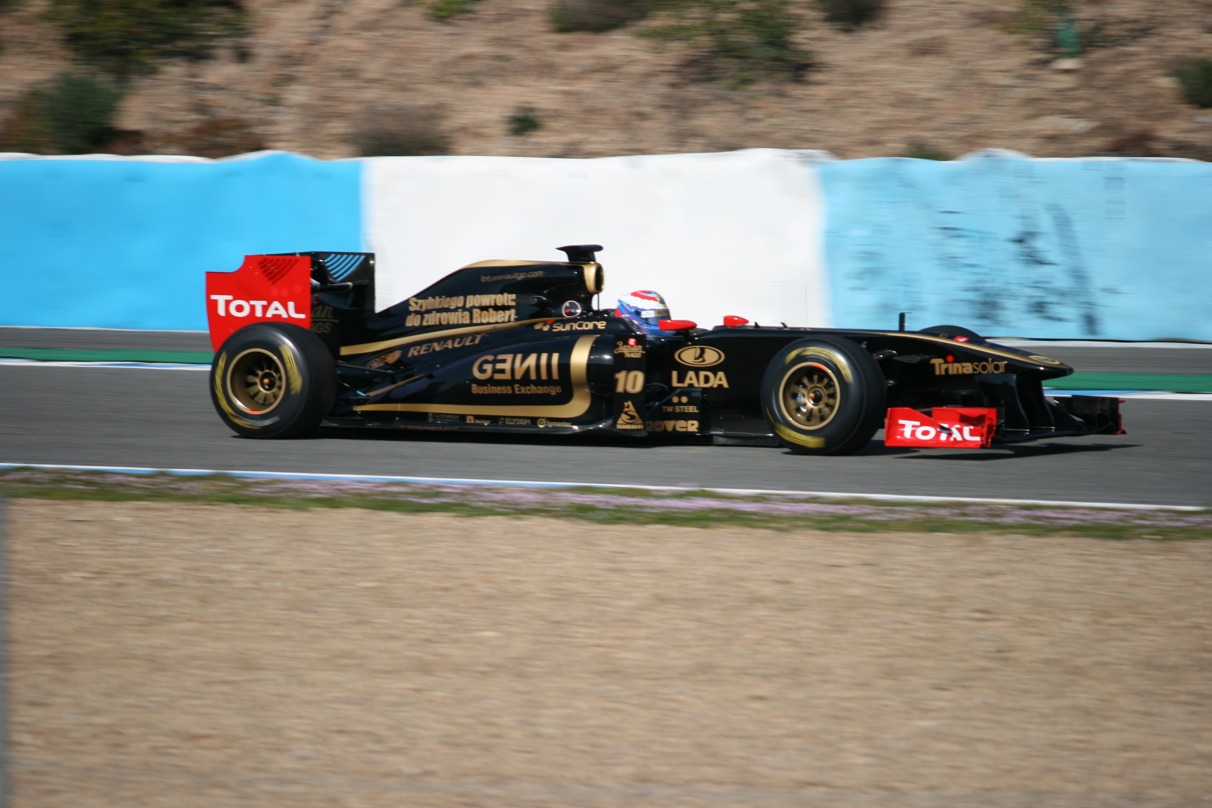 Vitaly Petrov testing for Renault F1 at Jerez.